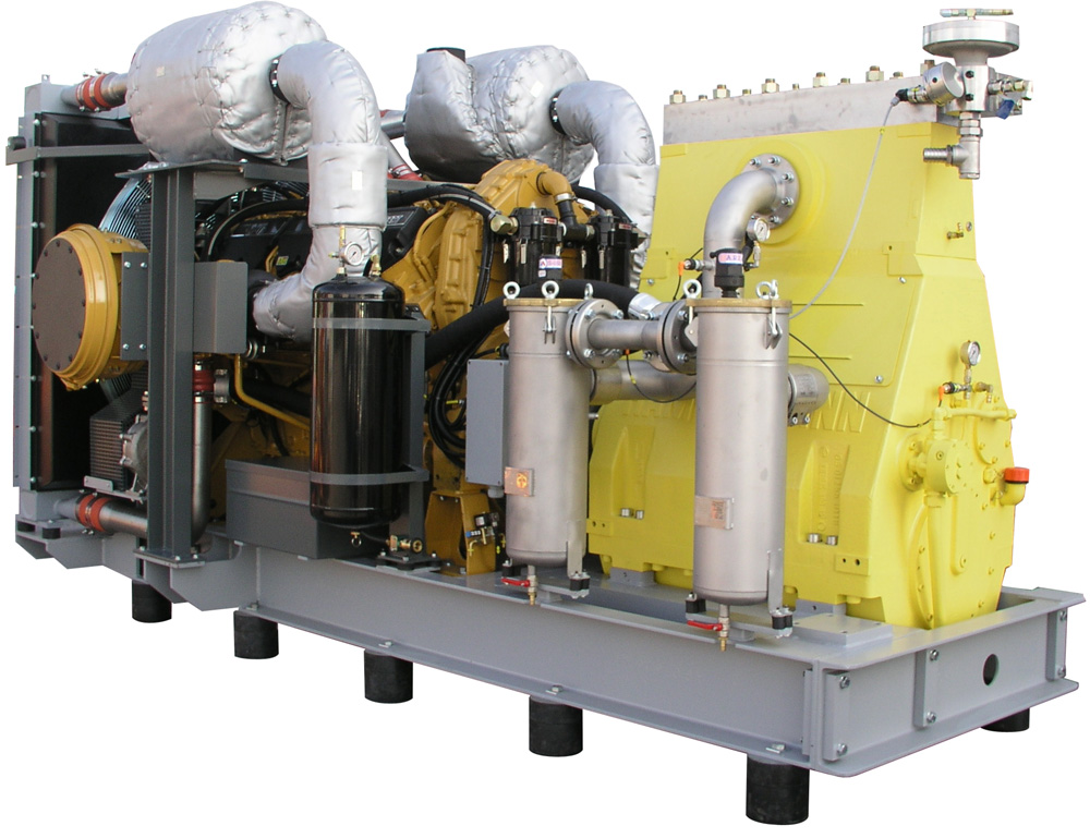 High pressure pump unit